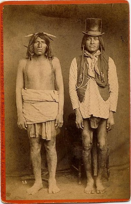 Yuma Apache Men, Left dressed as traditional warrior having blanket wrapped around his waist and tied. Picture taken by E.A. Butine. 1889 Los Angeles, Ca.